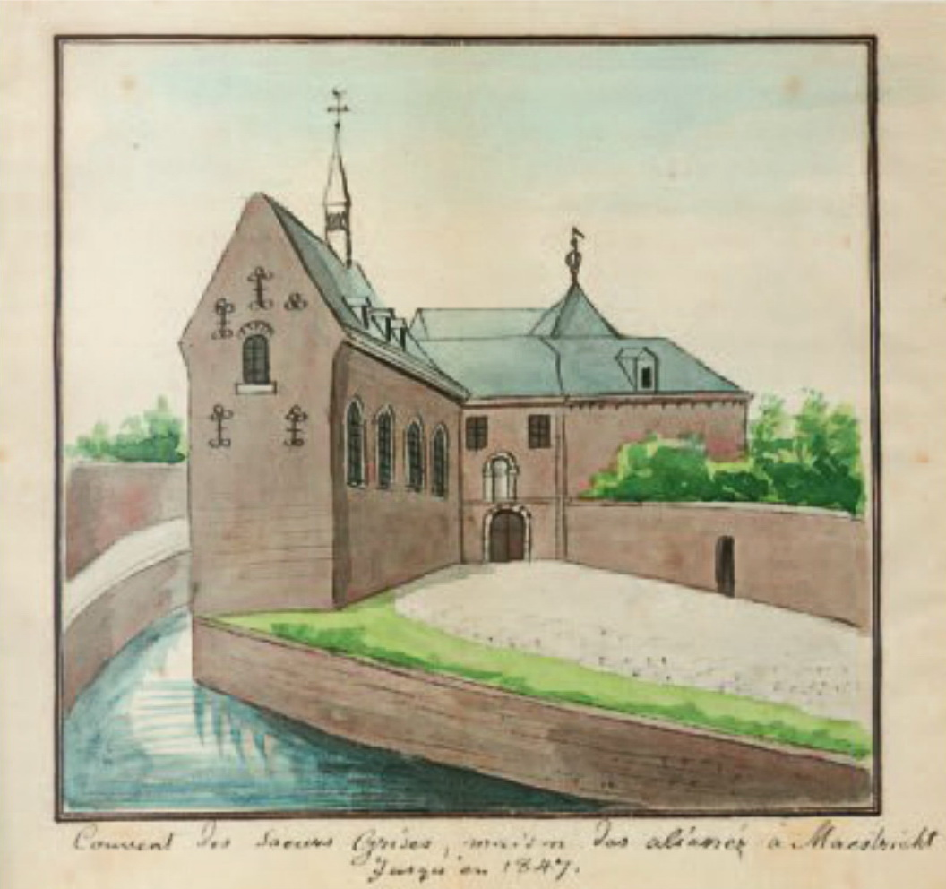 View of the Monastery of the "Grey Sisters" (Third Order of Franciscans), Maastricht, the Netherlands. Drawing by Philippe van Gulpen, 1849.